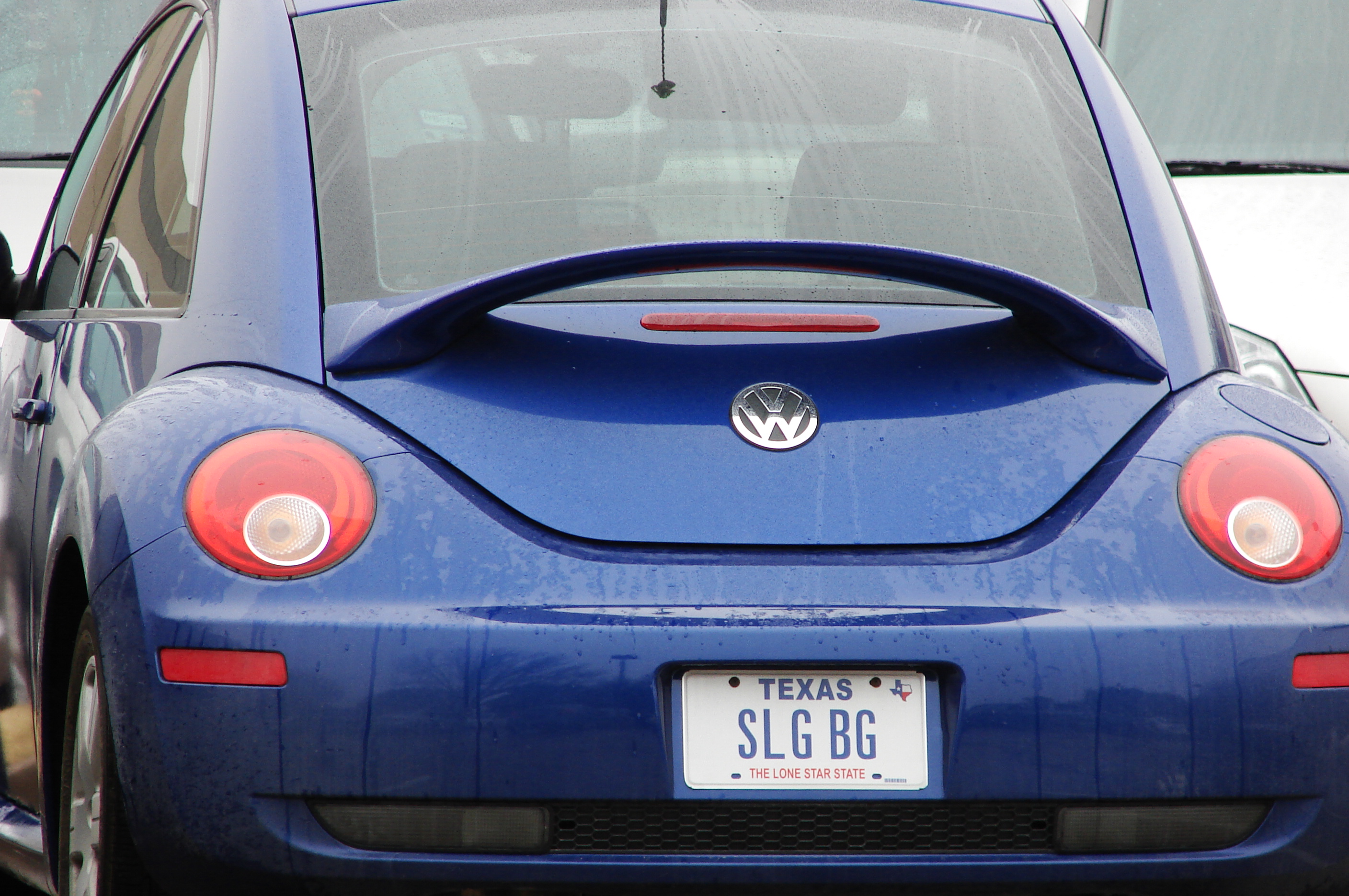 New Volkswagen Beetle (or "slug bug") car body and vanity license plate.